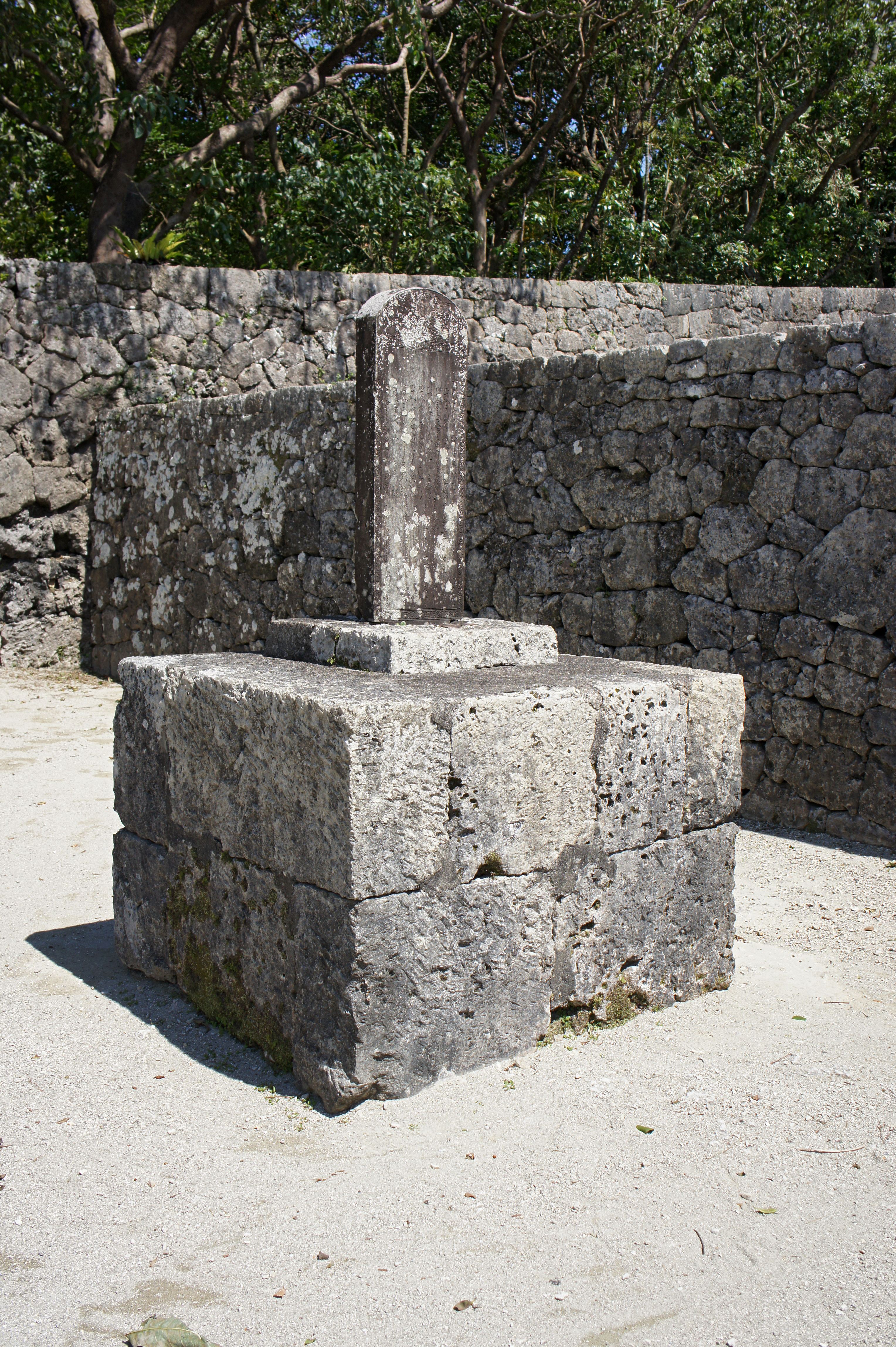 Tamaudun in Naha, Okinawa prefecture, Japan. Tamaudun was registered as part of the UNESCO World Heritage Site "Gusuku Sites and Related Properties of the Kingdom of Ryukyu".